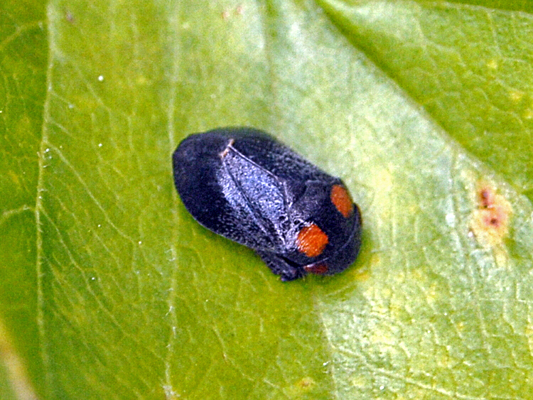 Cicadellidae - "Penthimia nigra". Regional Park of Capanne di Marcarolo, Alessandria, Italy